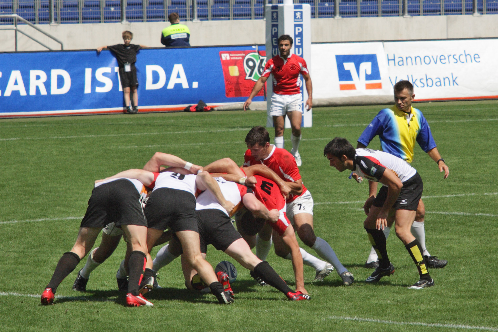 European Sevens 2008 (Hannover Sevens) tournament in Hannover, Germany. Fourth game in group A: Germany vs Georgia. A scrum. Georgia won the game with 0:26 points.